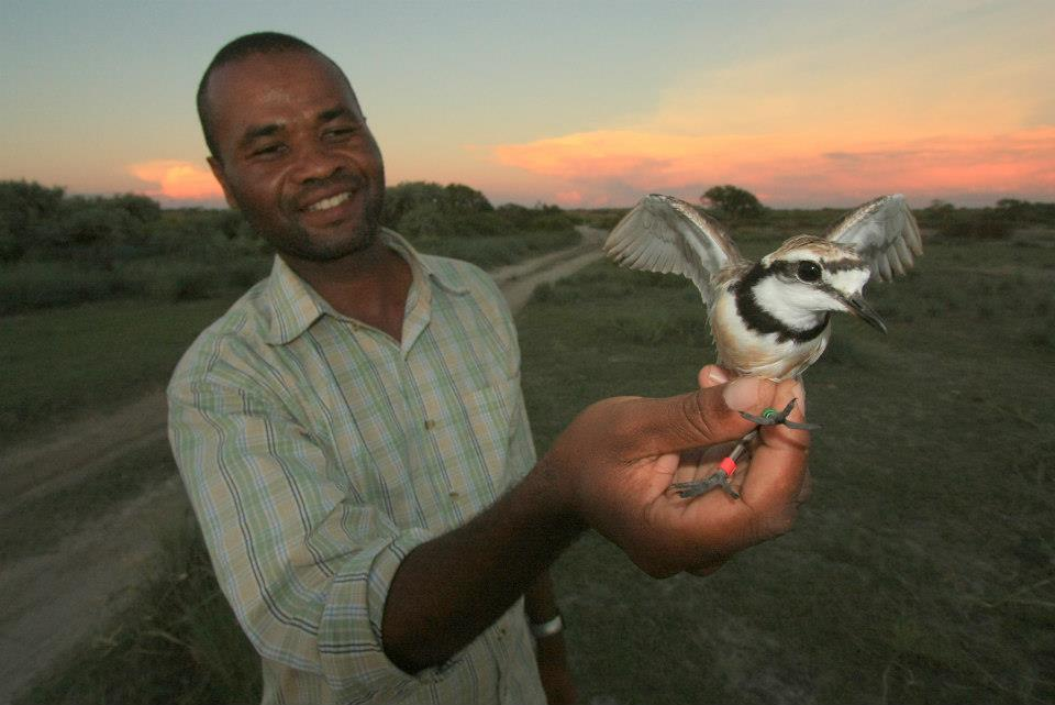 A Madagascar Plover being held by Sama Zefania